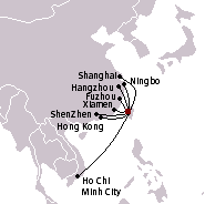 Taichung Airport international destinations